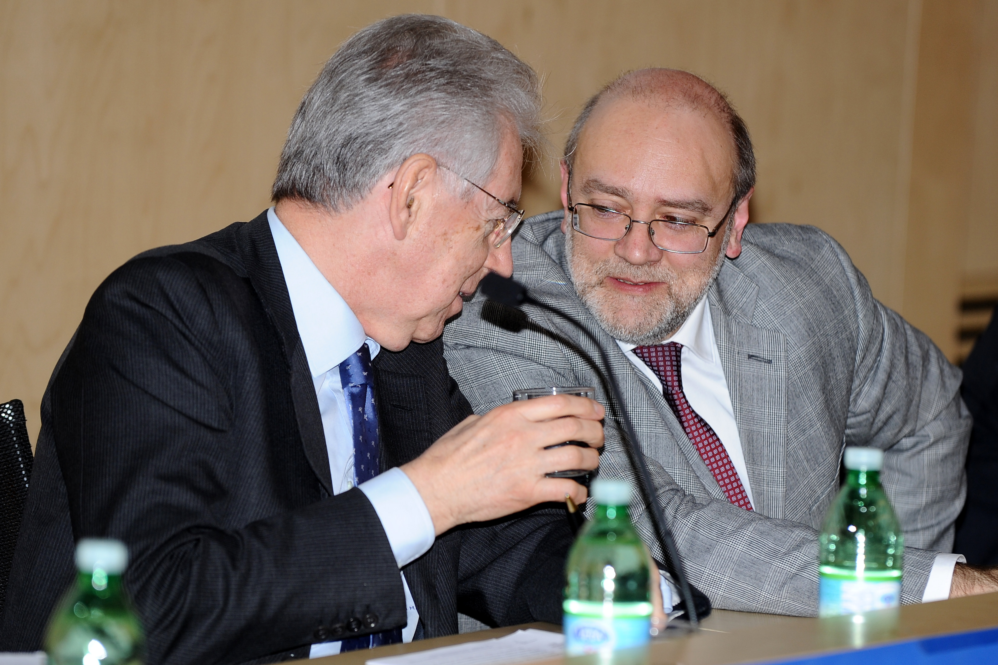 Mario Monti and Lorenzo Dellai.